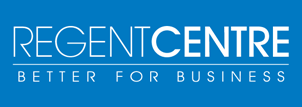 This is a logo for Regent Centre.